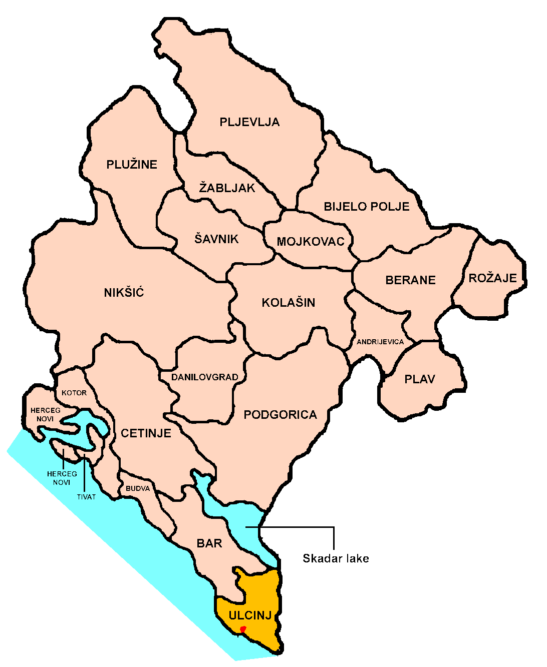 Location of Ulcinj town and municipality within Montenegro